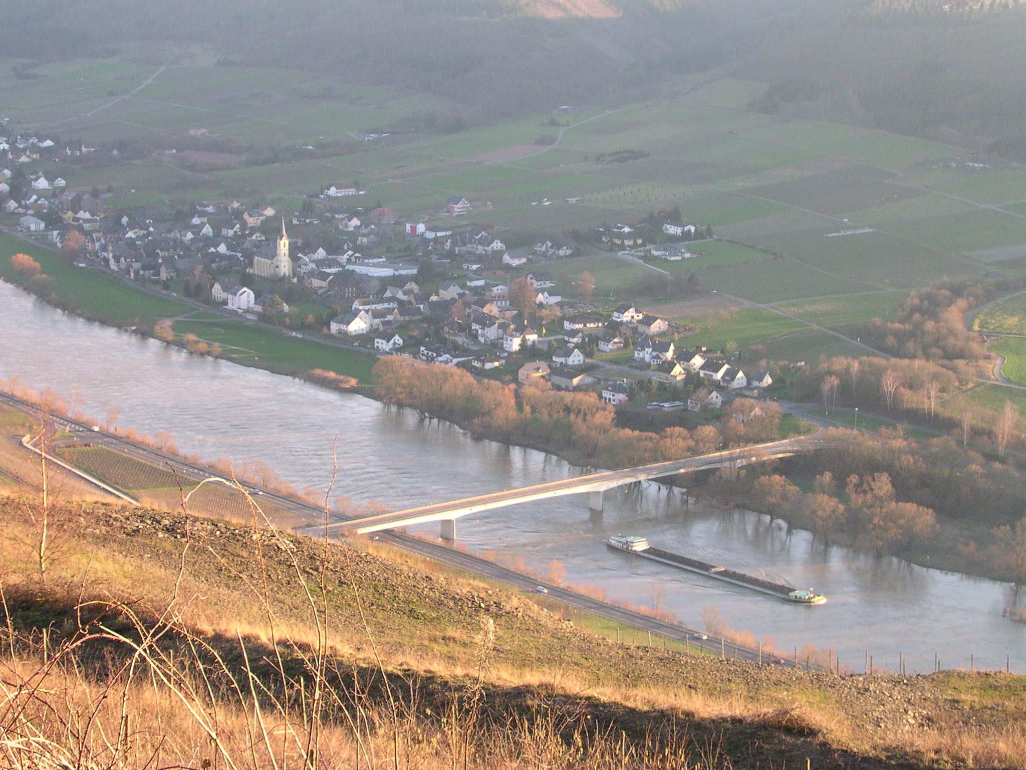 view on Lösnich